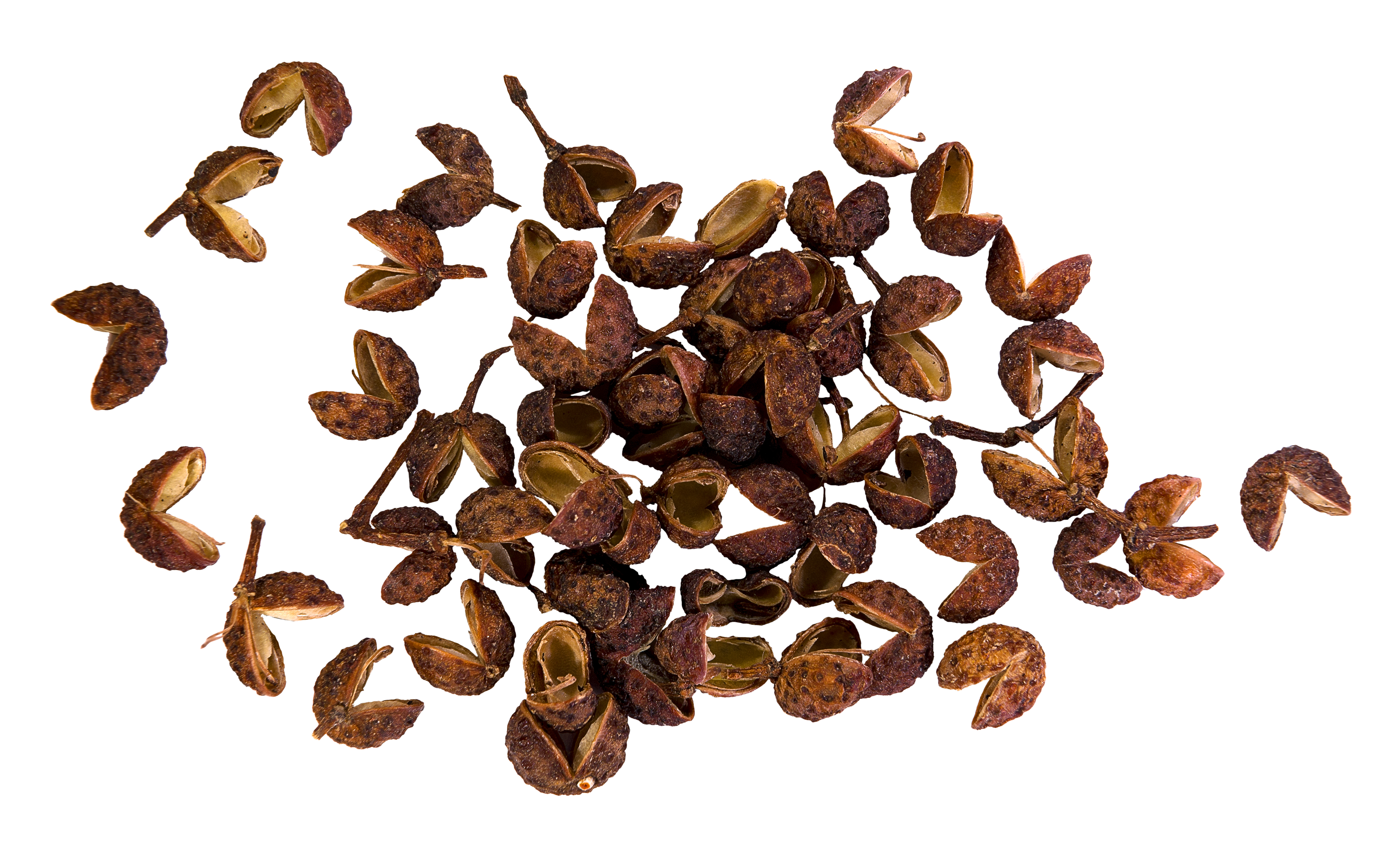 Sichuan pepper (Zanthoxylum piperitum) fruits